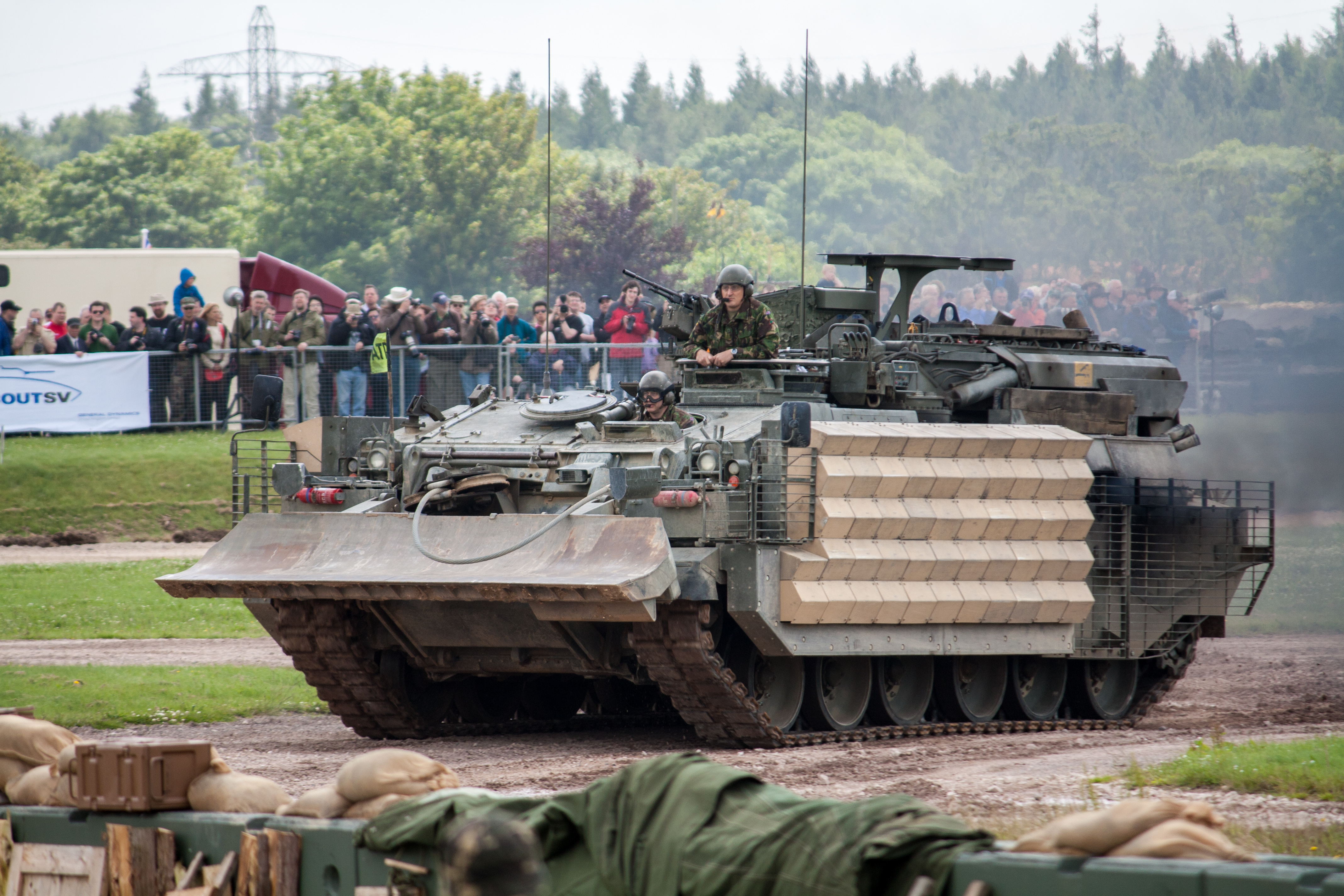 Challenger Armoured Repair and Recovery Vehicle (CRARRV)